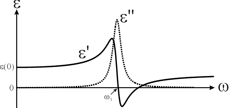 Plot of real and imaginary part of the dielectric function